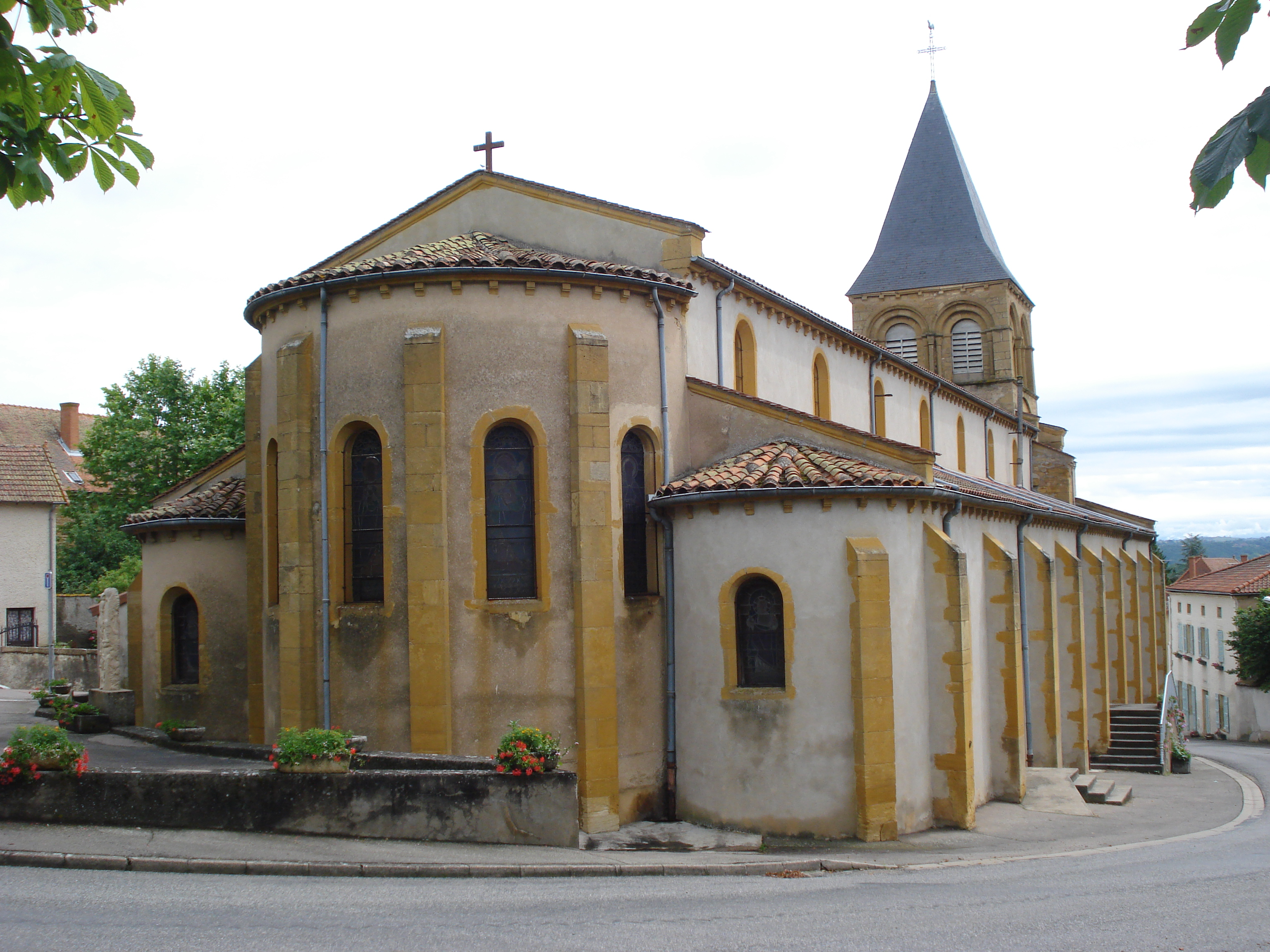 Melay (Saône-et-Loire, Fr), l'église avec son chevet.